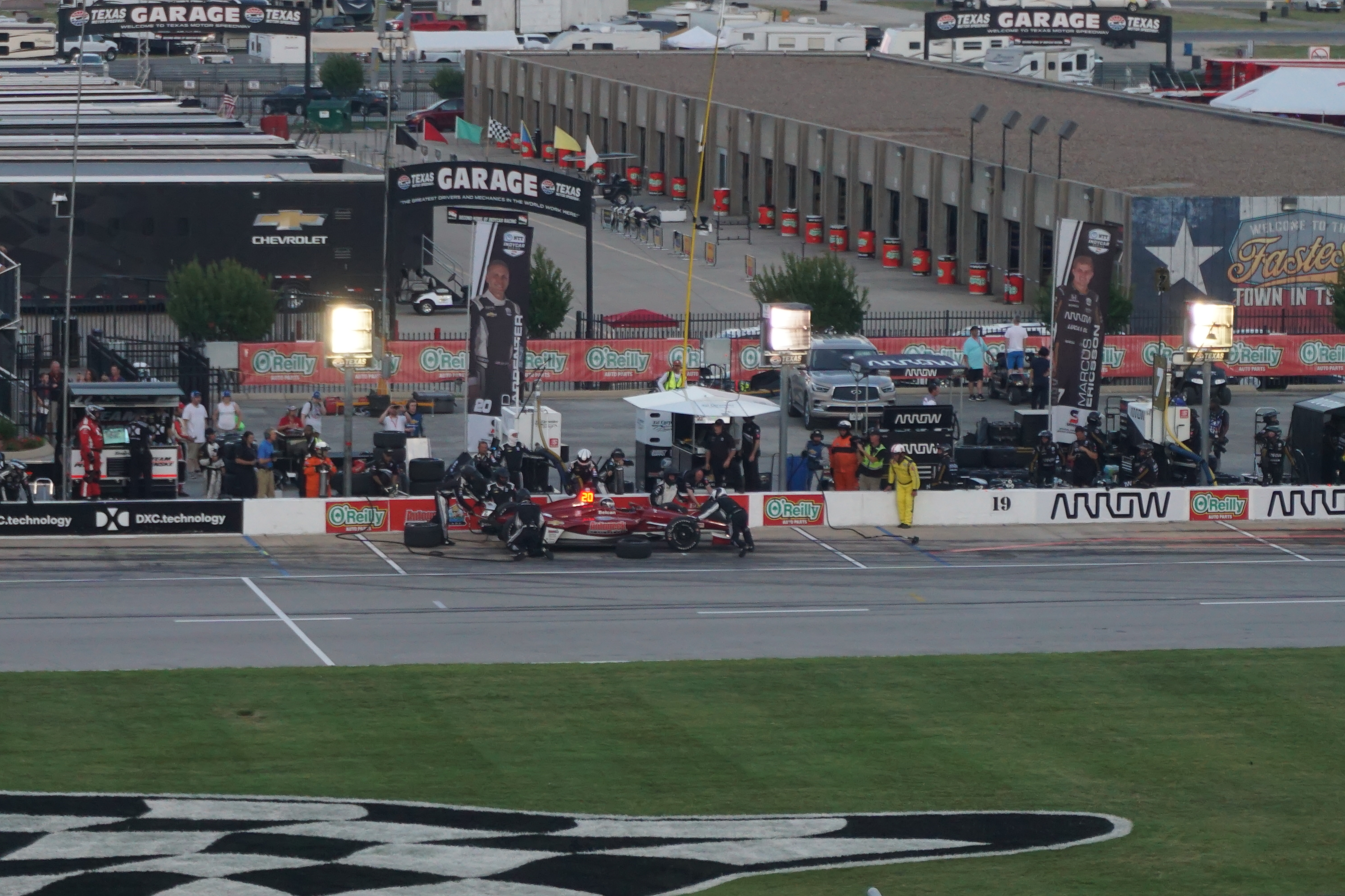 Ed Carpenter making a pit stop during the 2019 DXC Technology 600 at Texas Motor Speedway in Fort Worth, Texas (United States).